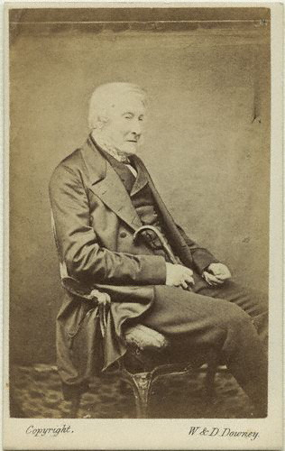 George Percy, 5th Duke of Northumberland (1778-1867)